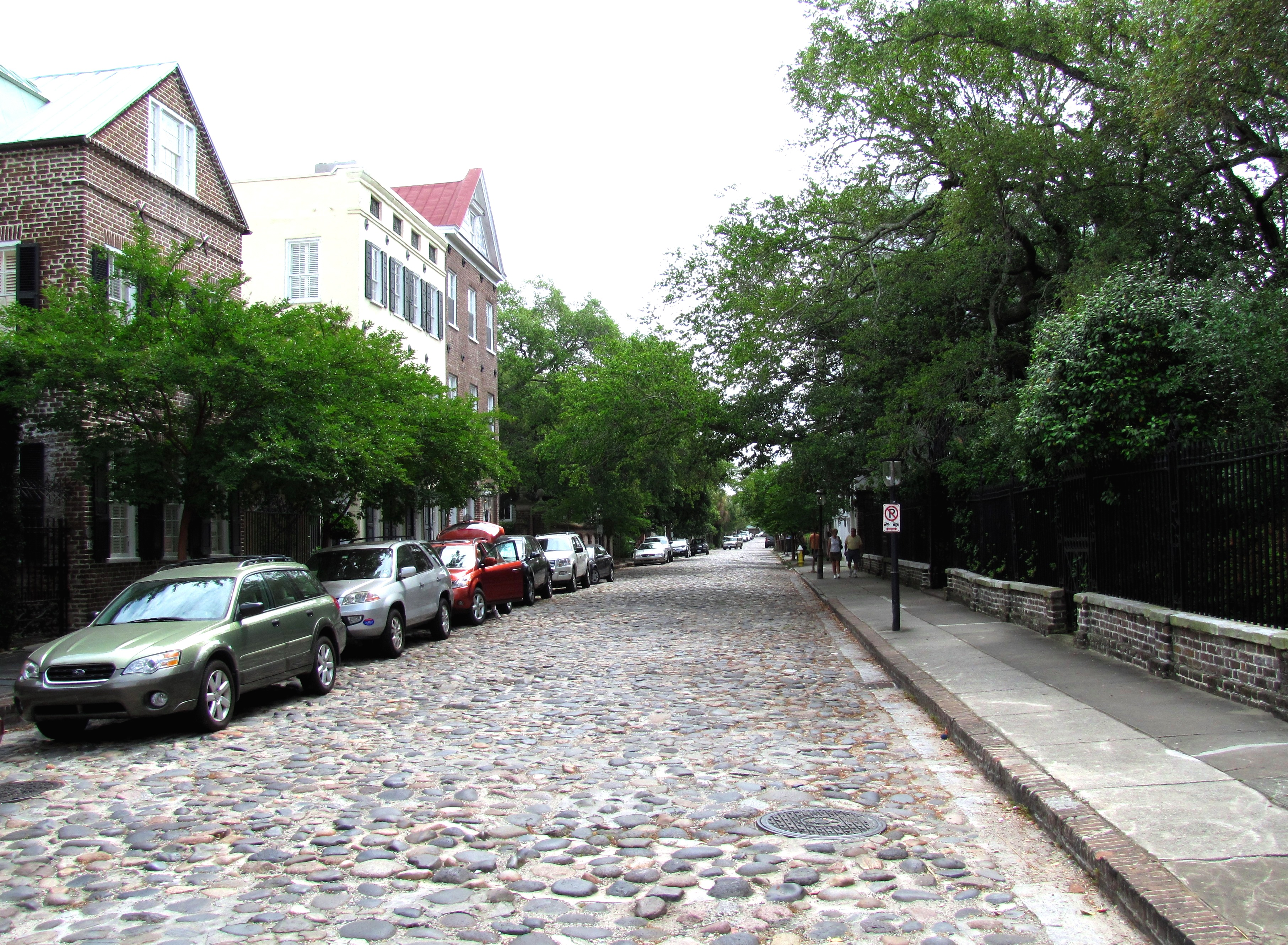 The cobblestone-paved Chalmers Street in Charleston, South Carolina, USA.